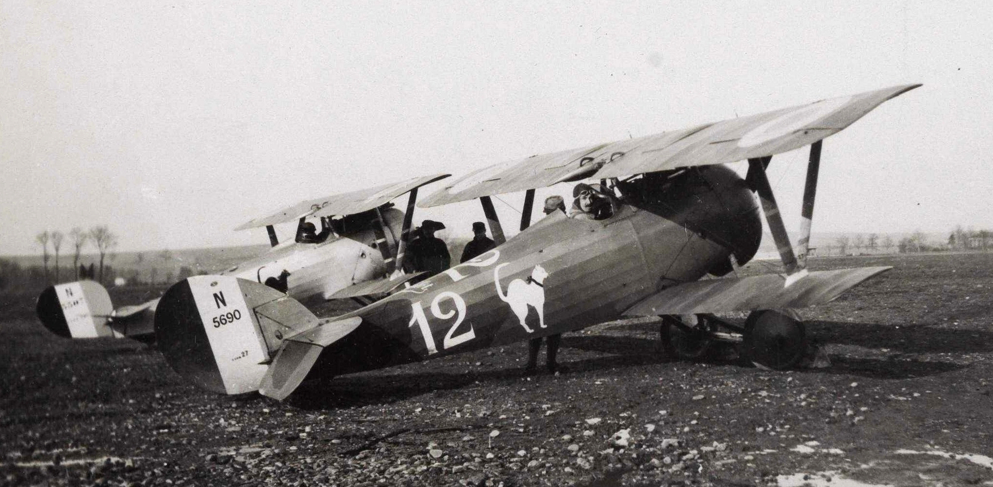 Lt. Destainville of Escadrille N 87 in his Nieuport 27 fighter at Lunéville airfield before departing on a flight.